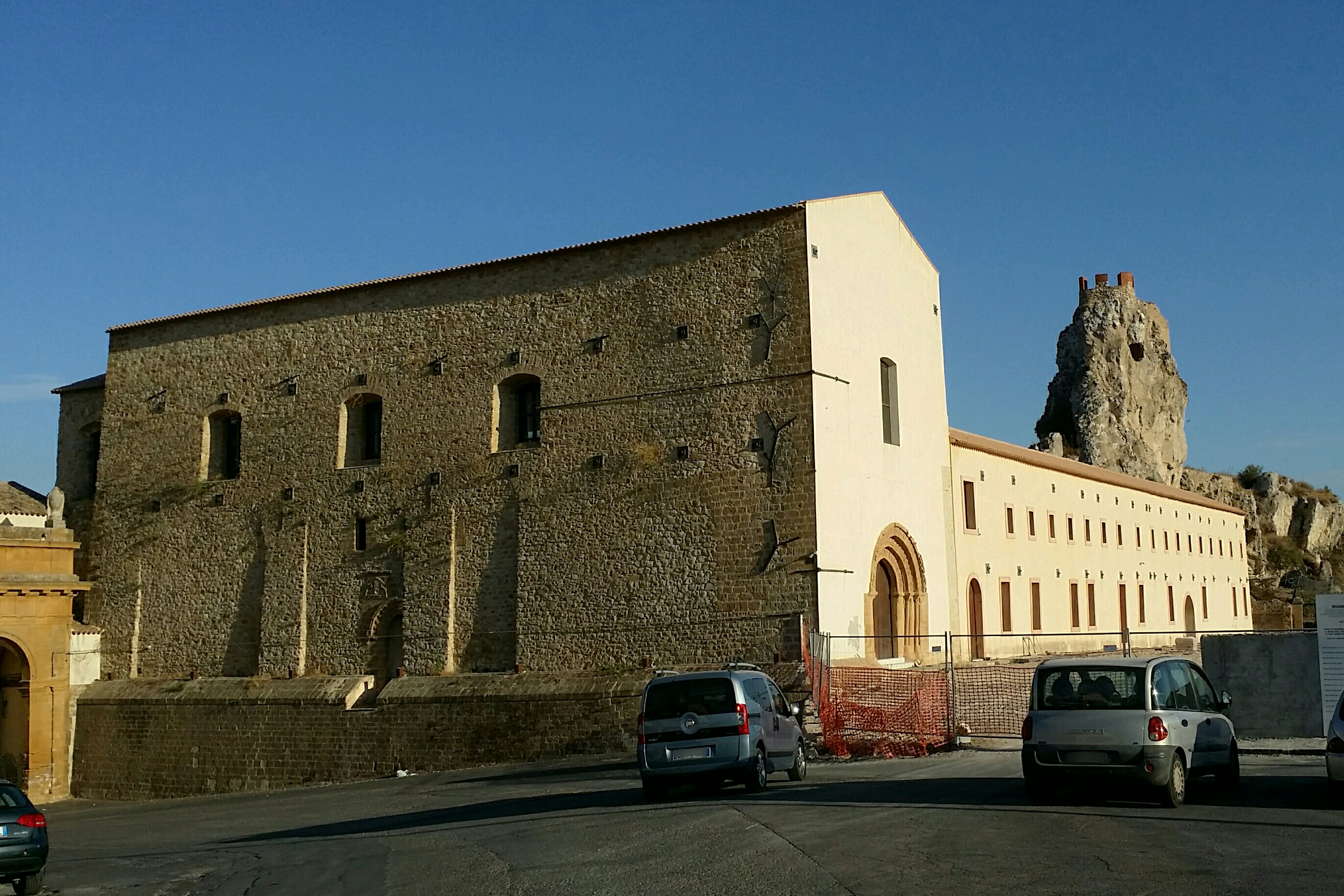 Church of Santa Maria degli Angeli ("Saint Mary of the Angels") in Caltanissetta, Italy, with the annex convent of Friars Minor, during the remaking of the outer spaces in 2017. In the background, the castle of Pietrarossa ("red stone").